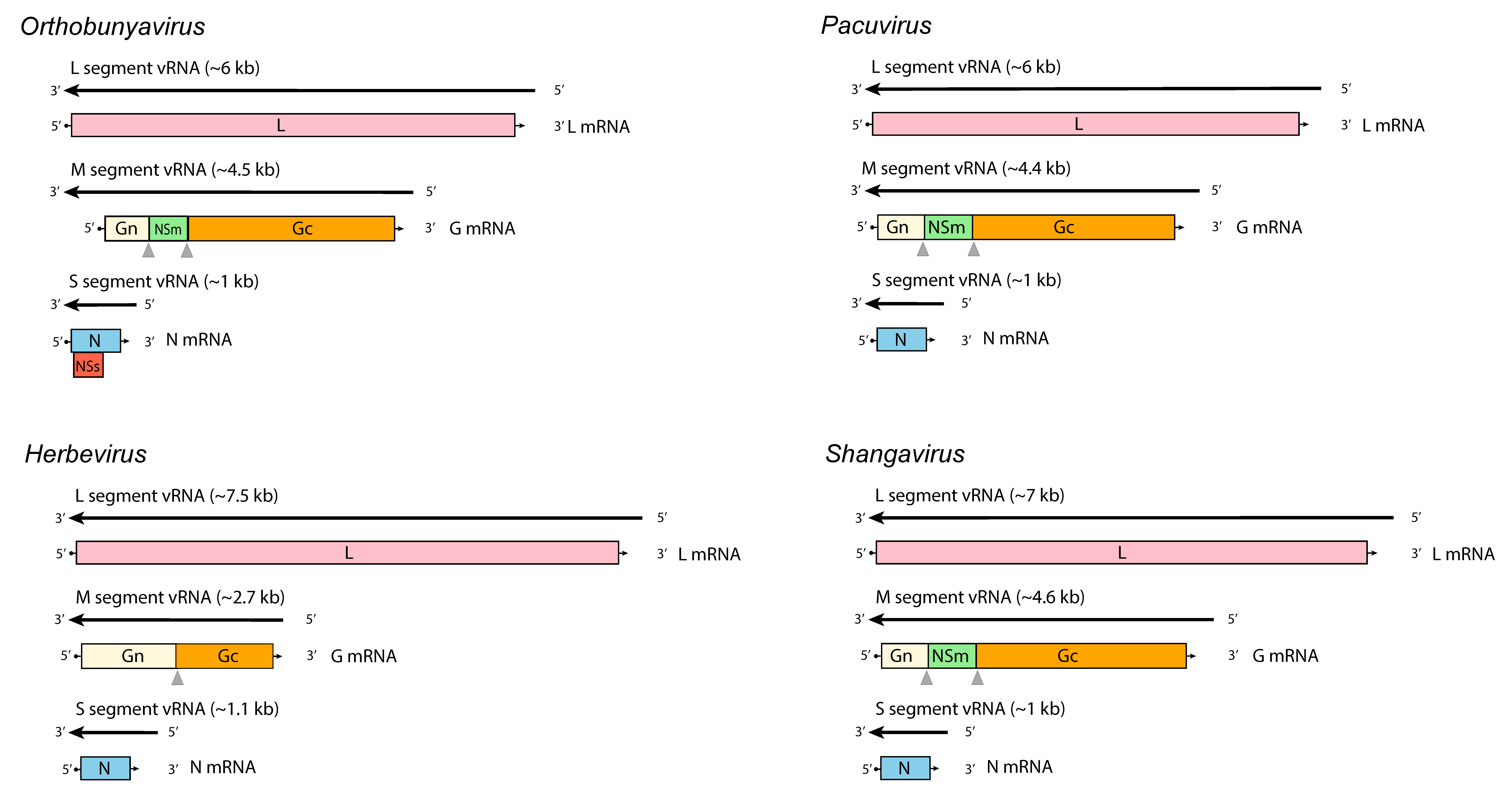 Peribunyaviridae. Generalized coding strategies of peribunyaviruses. Orthobunyavirus, herbevirus, pacuvirus and shangavirus vcRNAs are depicted in a 3'→5' direction and mRNAs are depicted in a 5'→3' direction. The mRNAs depict ORFs that encode the N, nucleocapsid protein; Gn and Gc, external glycoproteins; L, large protein, as well as the non-structural proteins NSs and NSm.